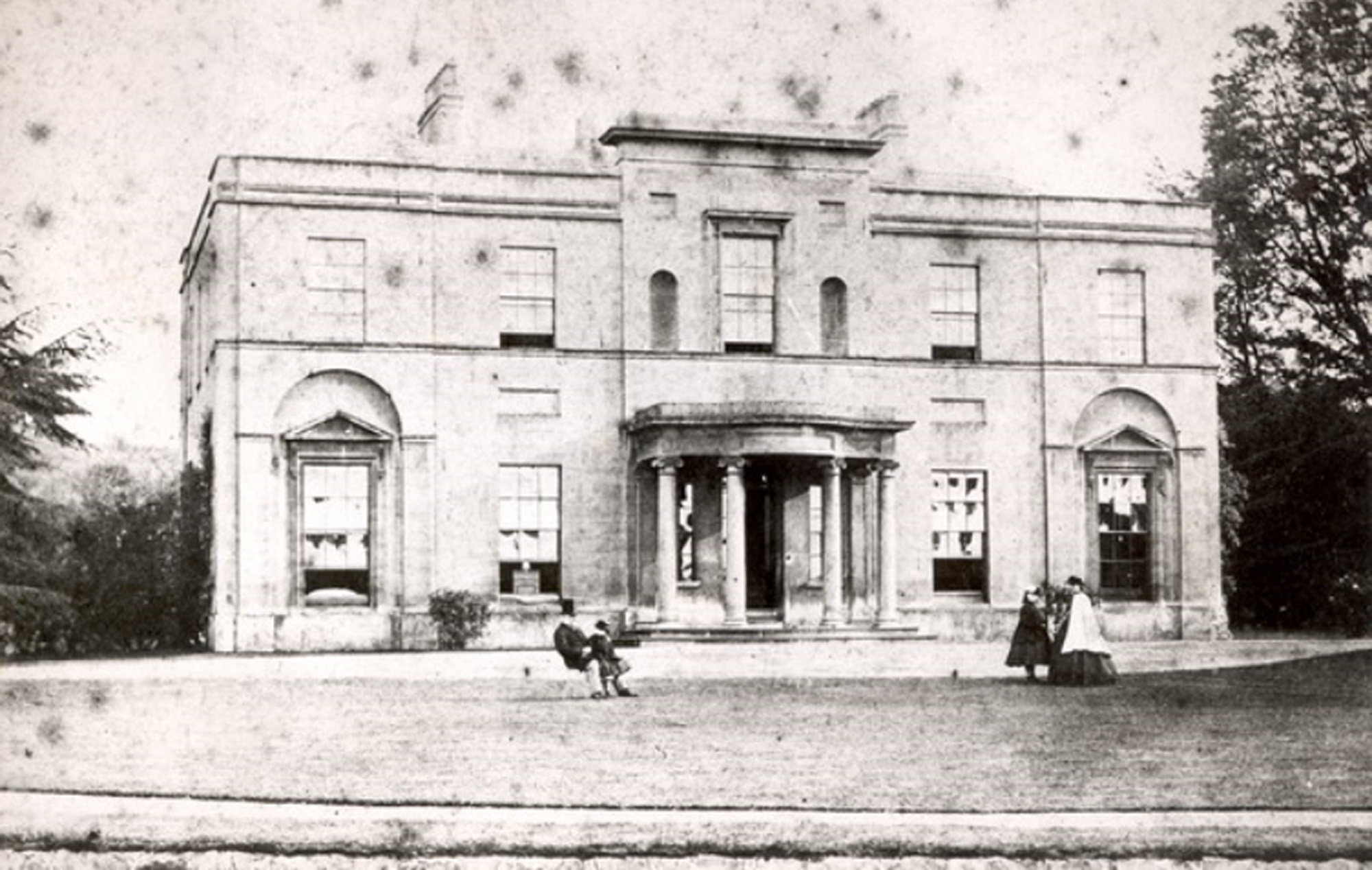 Backwell House, Somerset, 1864